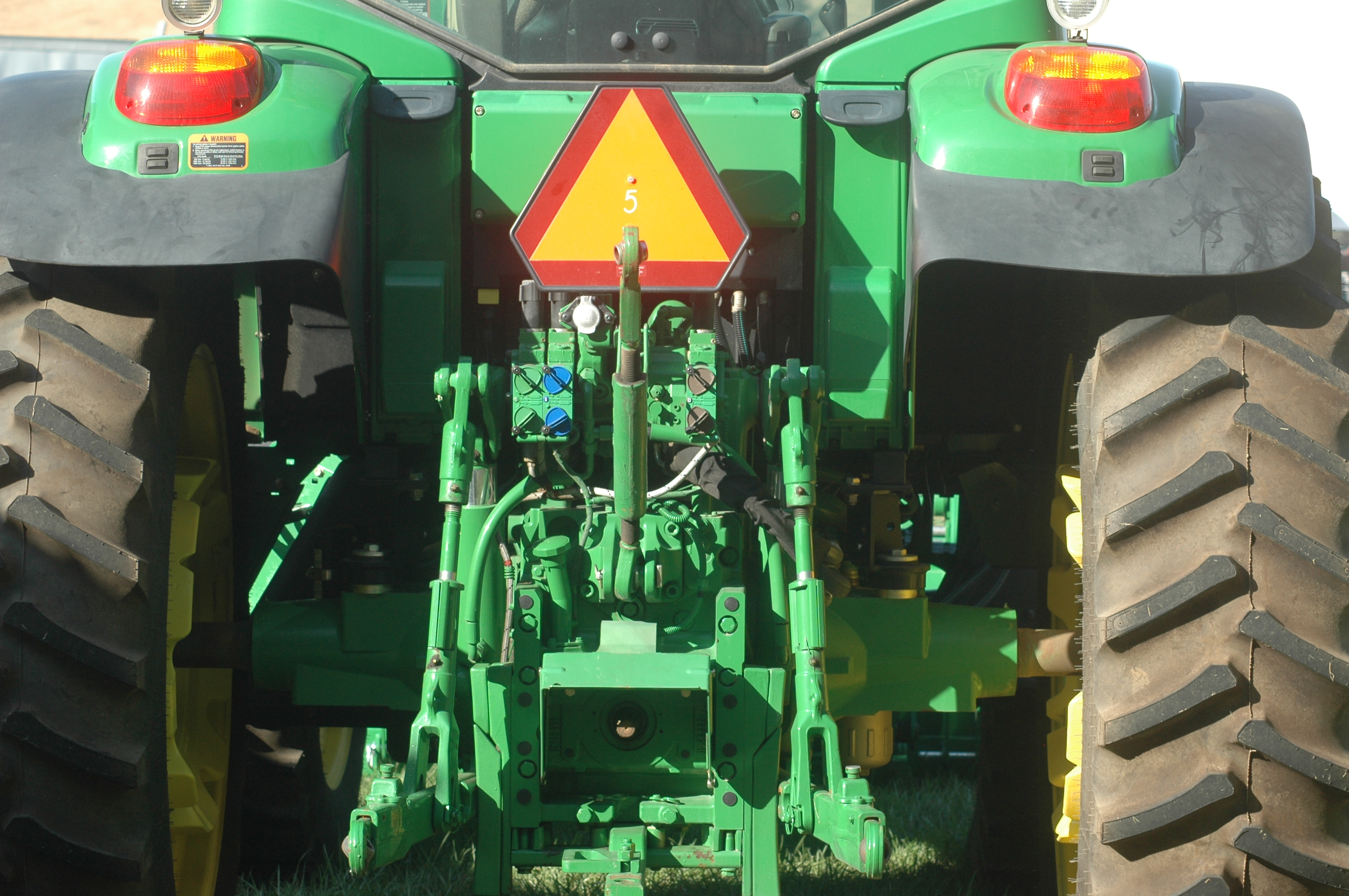 A tractor's rear, taken at Wasco County Fair 2009, Tygh Valley, Oregon, USA.